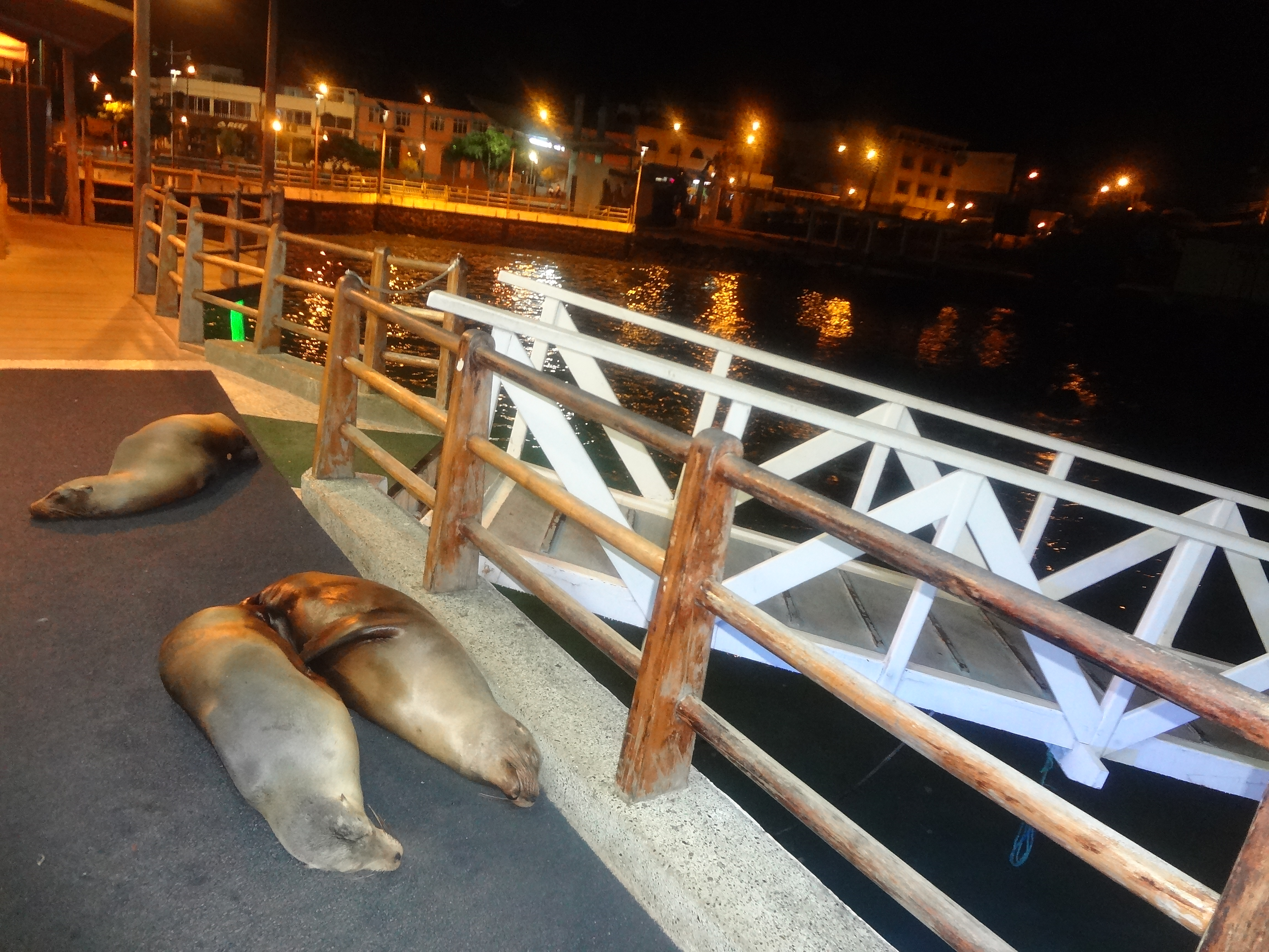 (Zalophus wollebaeki) Puerto Ayora main water taxi dock Three Galápagos Sea Lions Photography by David Adam Kess